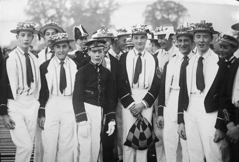 Traditionelles England ! Kein Pfingstbrauch, sondern eine englische Rudermannschaft in ihrem traditionellen Kostüm, zur Eröffnung der Ruder-Saison. Information added by Wikimedia users.Pupils at Eton College, 1932, dressed as members of the rowing eights taking part in the "Procession of Boats" on the River Thames during traditional Fourth of June celebrations. The names of their boats are shown on their hats: Monarch, Victory, Prince of Wales, Britannia, Thetis, Hibernia, St George, Alexandra, Defiance, Dreadnought (boats existing/surviving in 2011[1]).